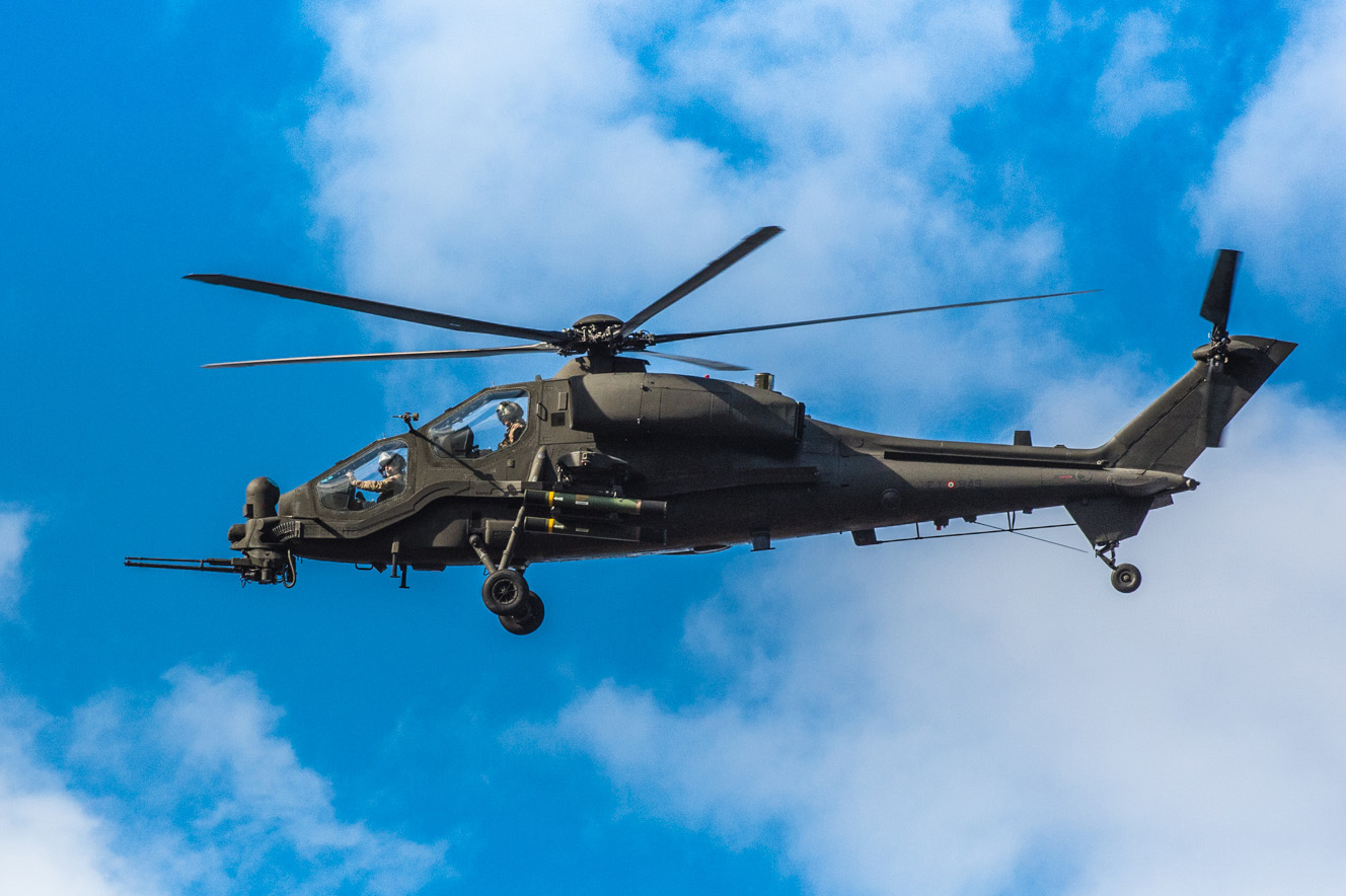 Italian Army - Army Aviation A129D "Mangusta" attack helicopter